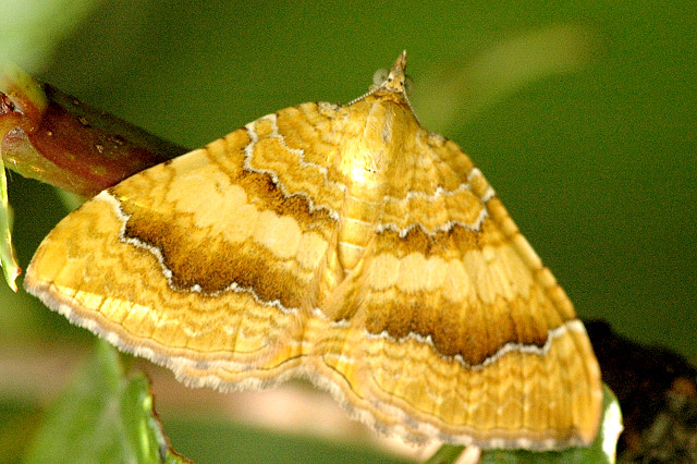 Picture taken in Commanster, Belgian High Ardennes . Species: Camptogramma bilineata